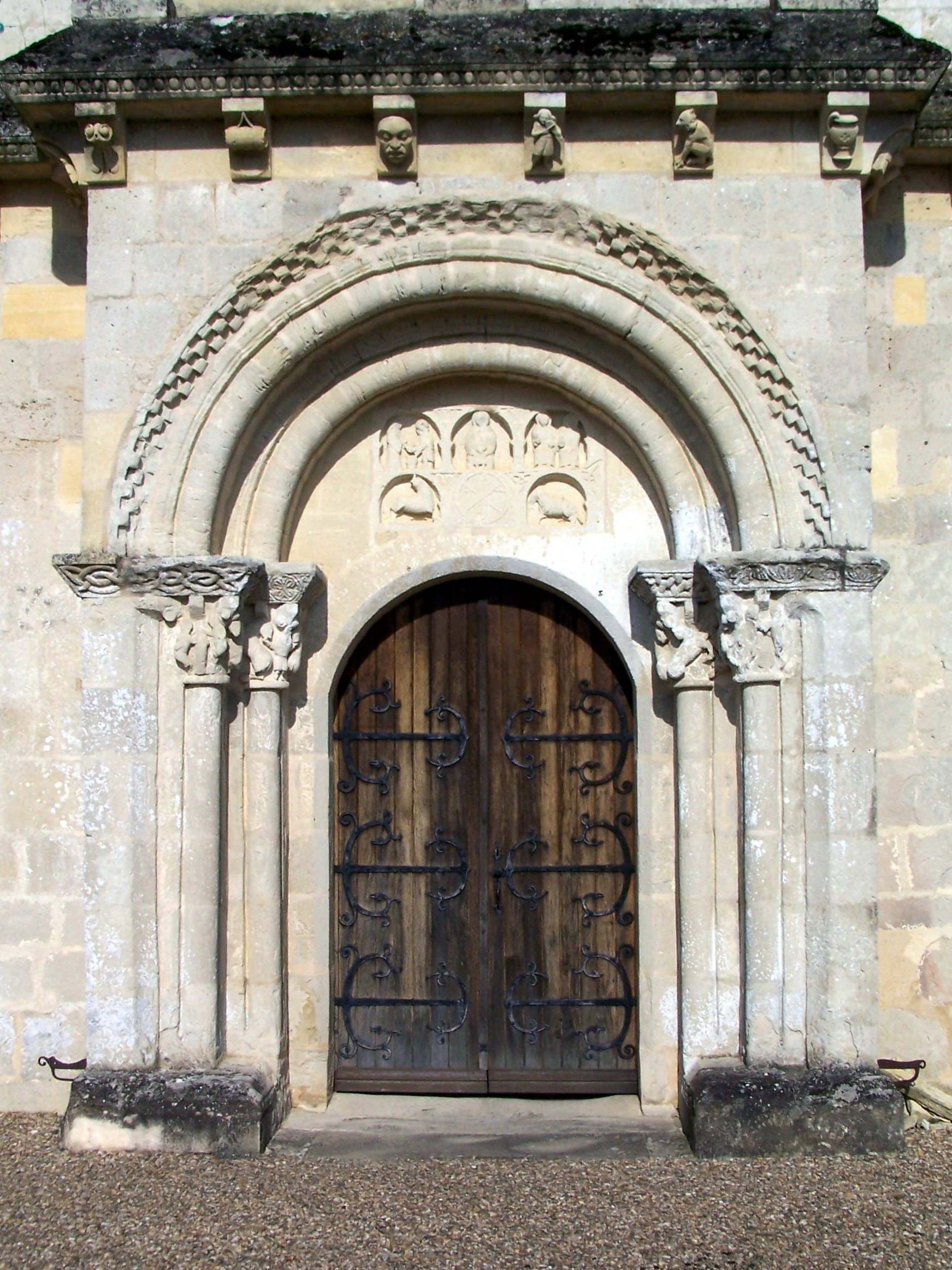 Church Saint-John-the--Baptist of Lagupie (Lot-et-Garonne, France)